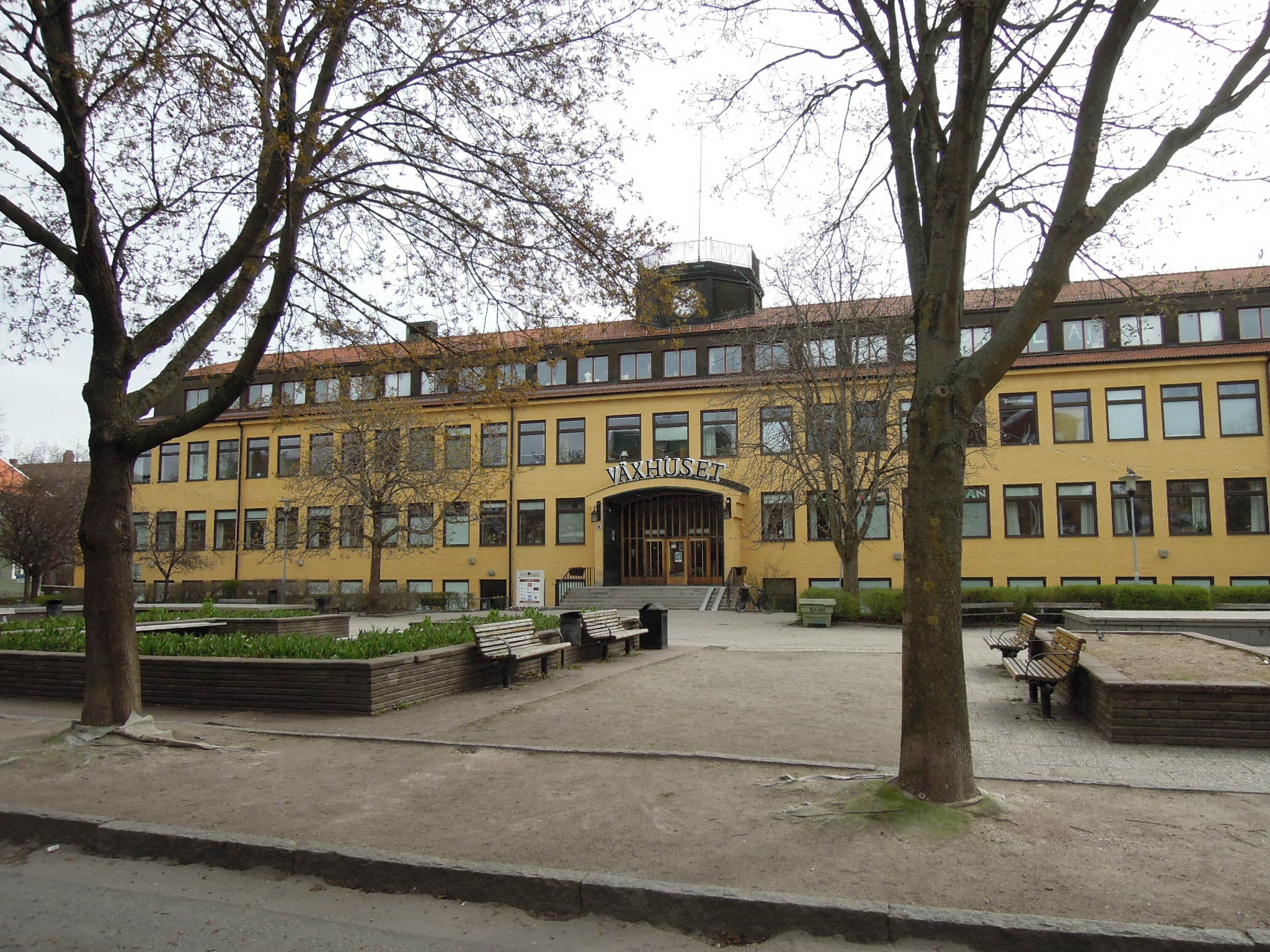 Växhuset in Västerås